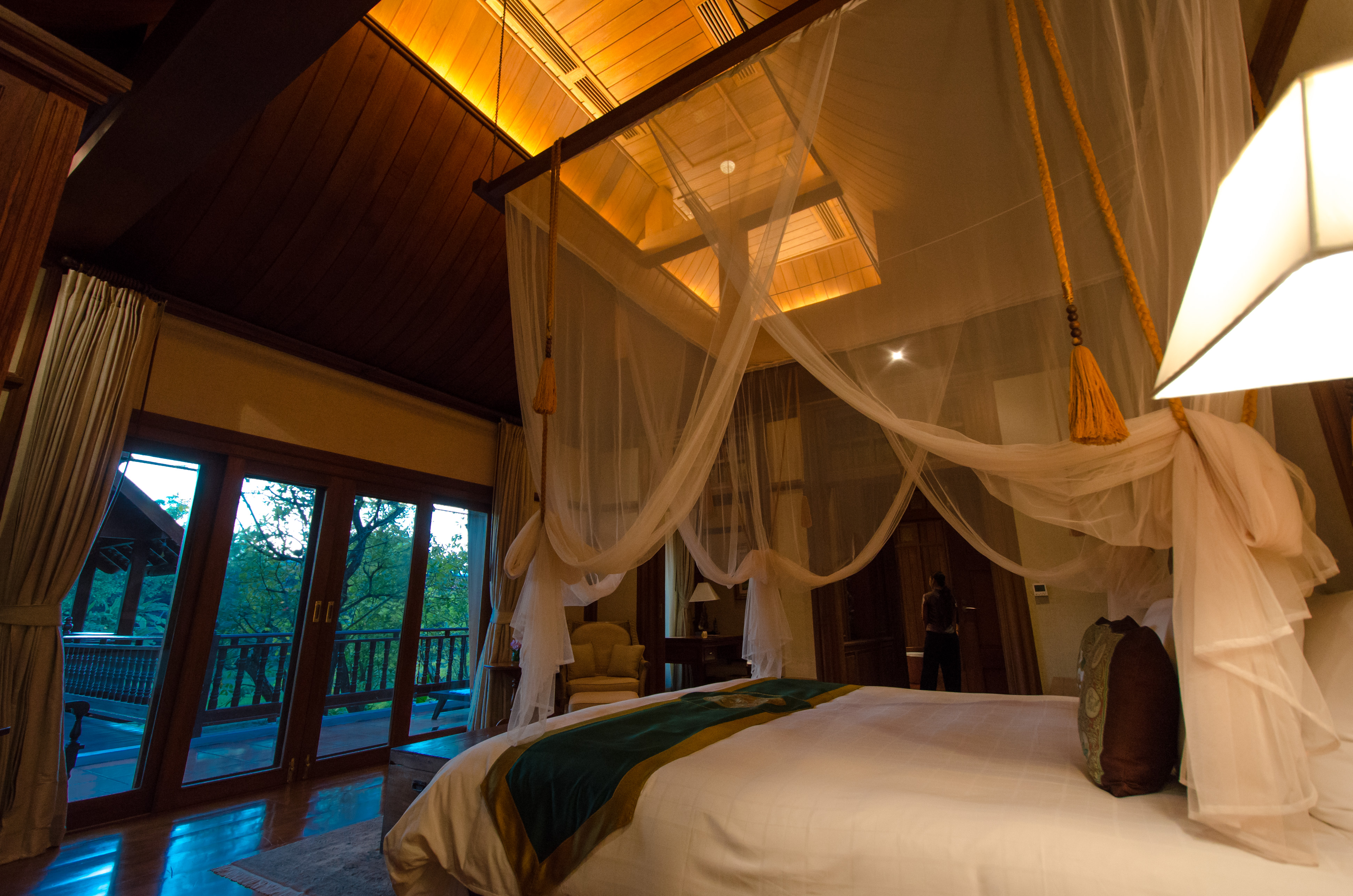 The bedroom of one of the villas of the Mandarin Oriental Dhara Dhevi in Chiang Mai.